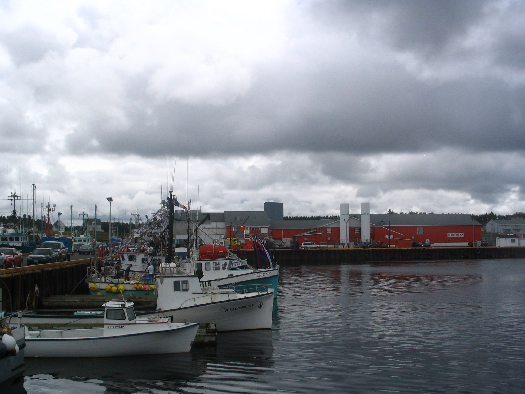 The port of Caraquet, New Brunswick, Canada.